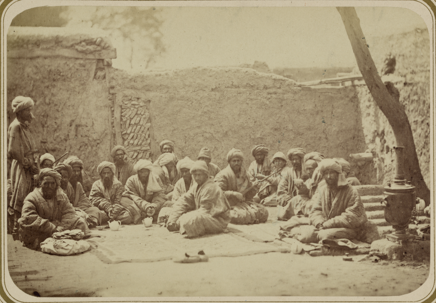 This photograph is from the ethnographical part of Turkestan Album, a comprehensive visual survey of Central Asia undertaken after imperial Russia assumed control of the region in the 1860s. Commissioned by General Konstantin Petrovich von Kaufman (1818–82), the first governor-general of Russian Turkestan, the album is in four parts spanning six volumes: “Archaeological Part” (two volumes); “Ethnographic Part” (two volumes); “Trades Part” (one volume); and “Historical Part” (one volume). The principal compiler was Russian Orientalist Aleksandr L. Kun, who was assisted by Nikolai V. Bogaevskii. The album contains some 1,200 photographs, along with architectural plans, watercolor drawings, and maps. The “Ethnographic Part” includes 491 individual photographs on 163 plates. The photographs show individuals representing the different peoples of the region (Plates 1–33); daily life and rituals (Plates 34–91); and views of villages and cities, street vendors, and commercial activities (Plates 92–163). Cafés; Eating and drinking; Ethnographic photographs; Group portraits; Opium; Photographic surveys; Portrait photographs; Samovars; Tea; Turkic peoples